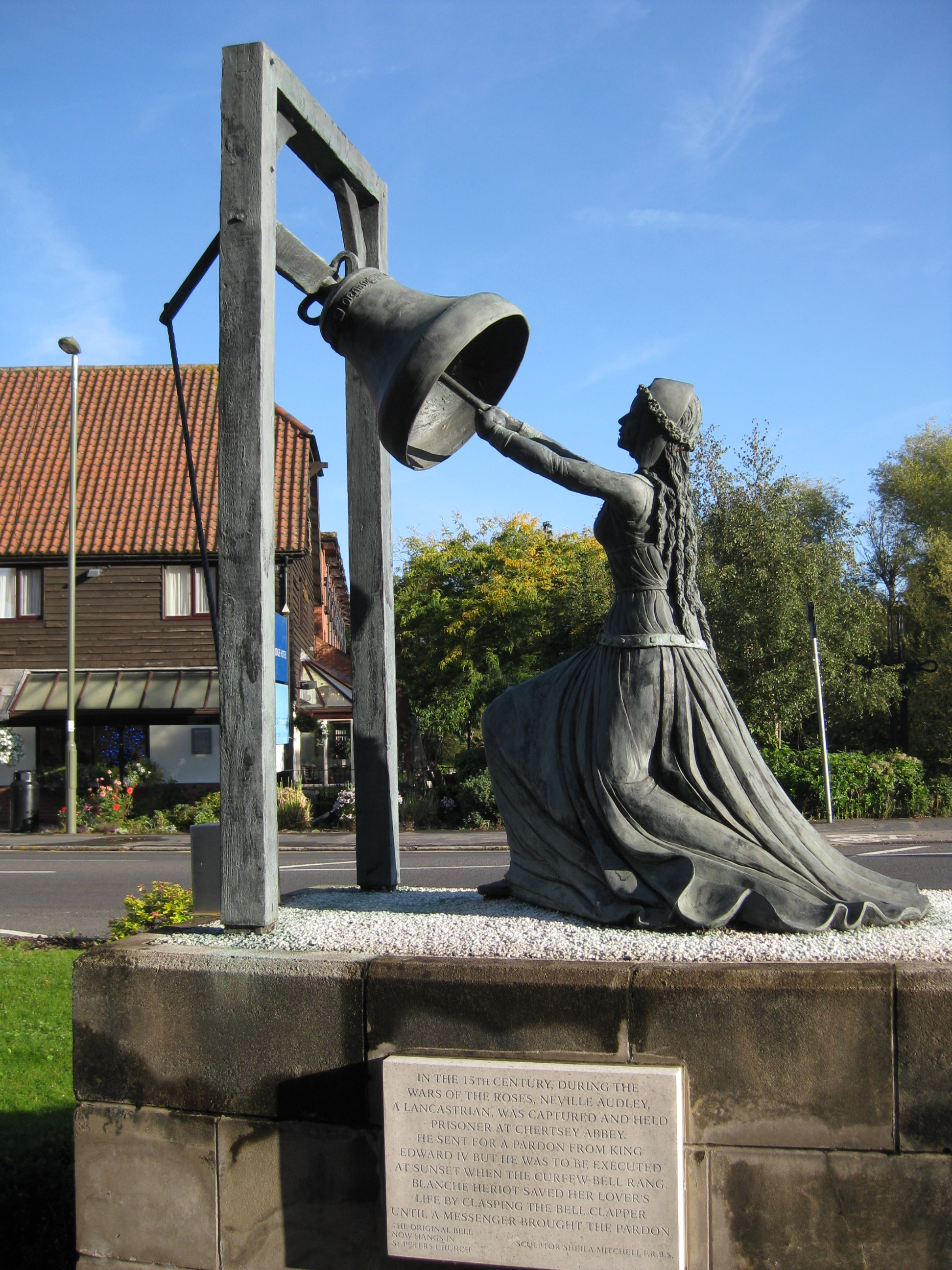 Statue of Blanche Heriot holding the clapper of a bell. Text below tells how she did this to stop the curfew sounding, thus delaying the execution of her lover until a pardon arrived. Sculptor Sheile Mitchell, FRBS